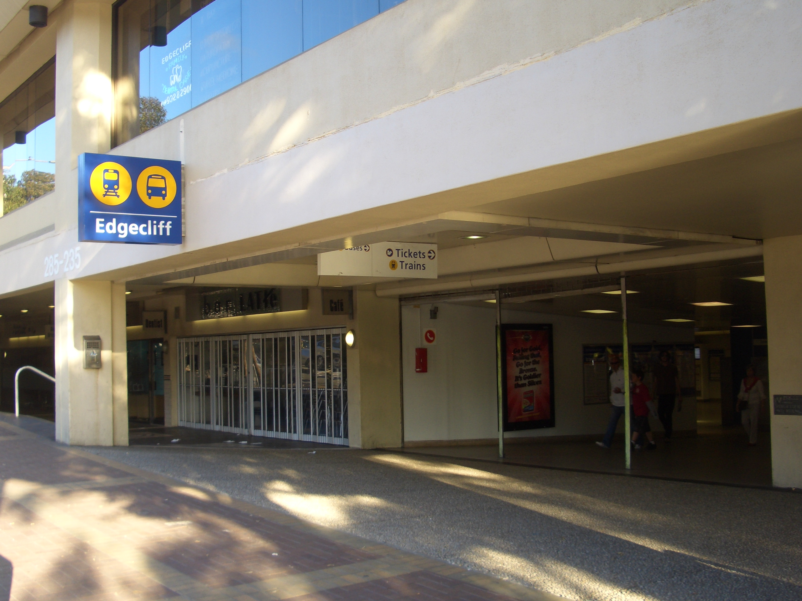 Edgecliff Railway Station entrance